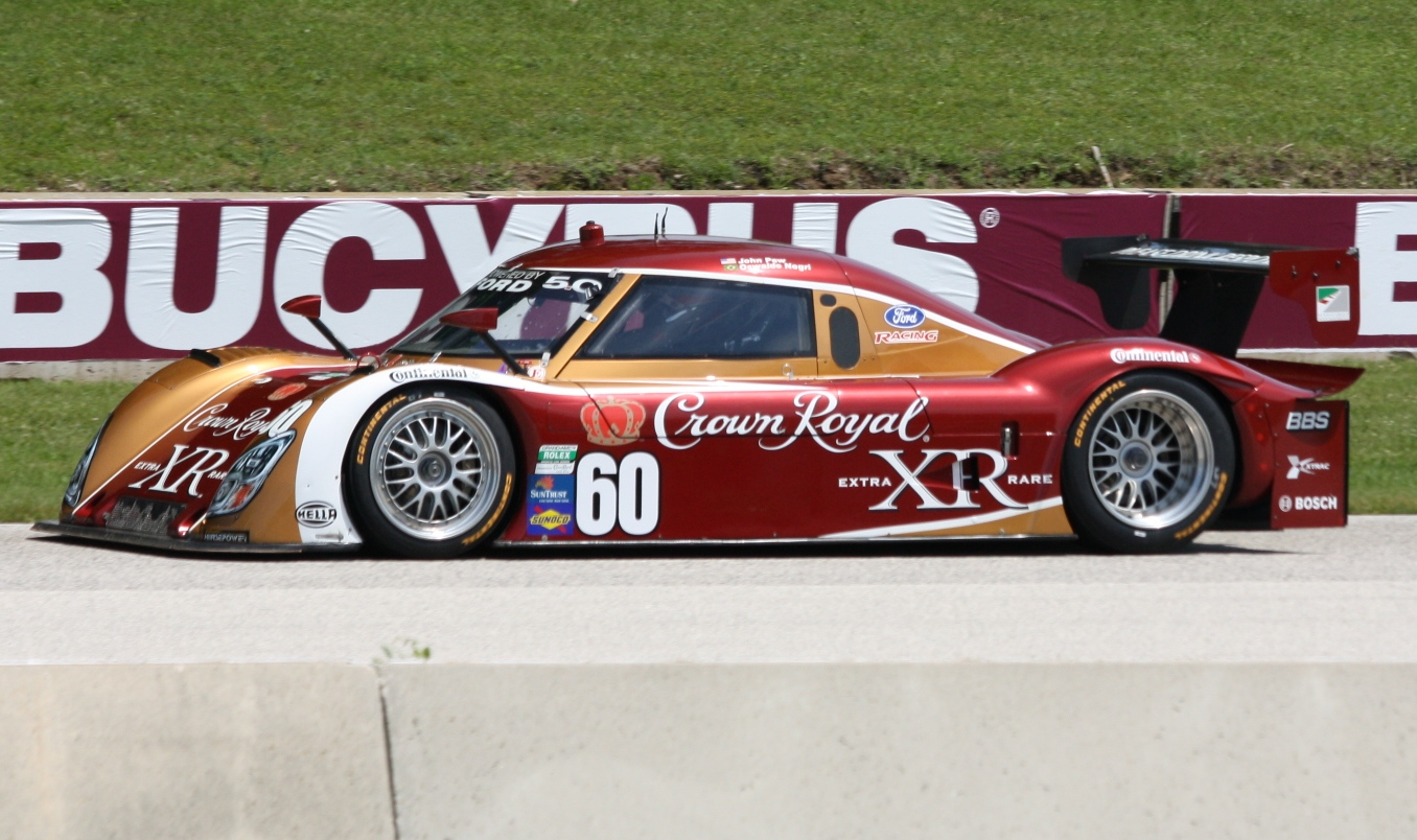 The Daytona Prototype of Ozz Negri and John Pew racing in Grand-Am sports car at Road America.